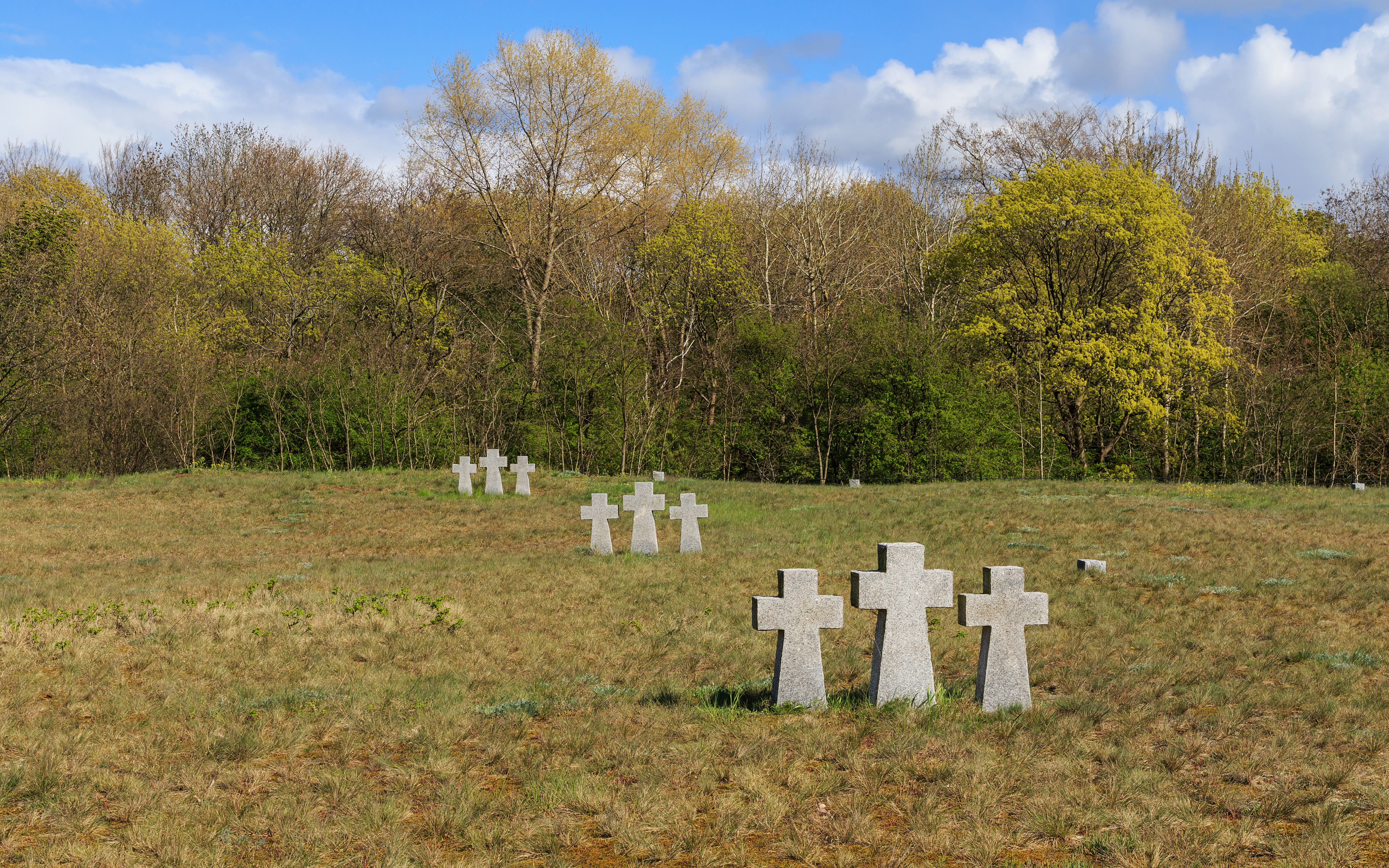 German memorial cemetery in Baltiysk formerly Pillau / Kaliningrad Oblast (Russia).